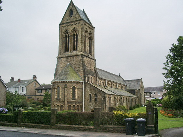 St Paul's parish church, Scotforth, Lancaster, seen from the east